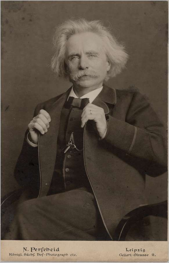 Portrait of Edvard Grieg, hands on collar of suit, looking into camera.